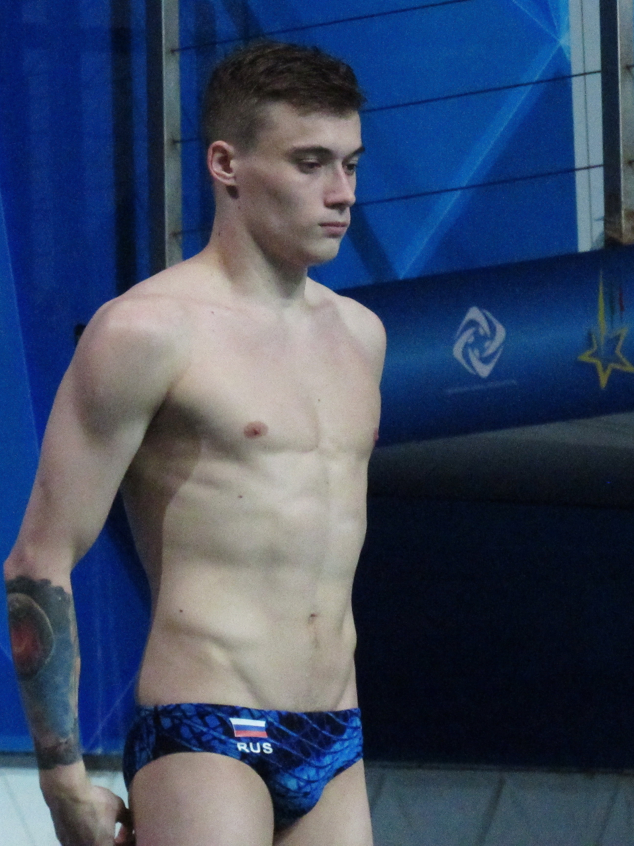 Russian diver Nikita Shleikher at the 2019 European Diving Championships in Kyiv.